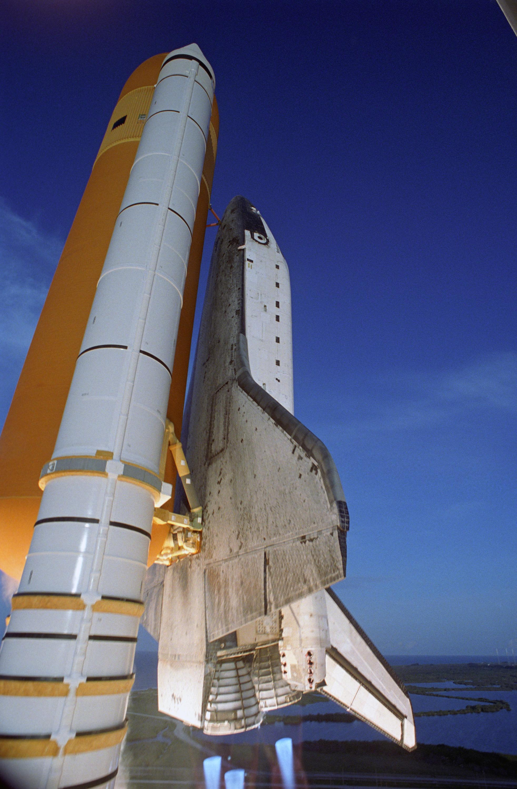 Atlantis rockets into the blue sky above Launch Pad 39A after liftoff on the STS-117 mission. Beneath Atlantis' main engines are blue cones of light, known as shock or mach diamonds, which are a formation of shock waves in the exhaust plume of an aerospace propulsion system. The shuttle delivered a new segment to the starboard side of the International Space Station's backbone, known as the truss, during this mission in 2007. During three spacewalks station and shuttle crew installed the S3/S4 truss segment, deployed a set of solar arrays and prepared them for operation. STS-117 was the 118th space shuttle flight, the 21st flight to the station and the 28th flight for Atlantis.